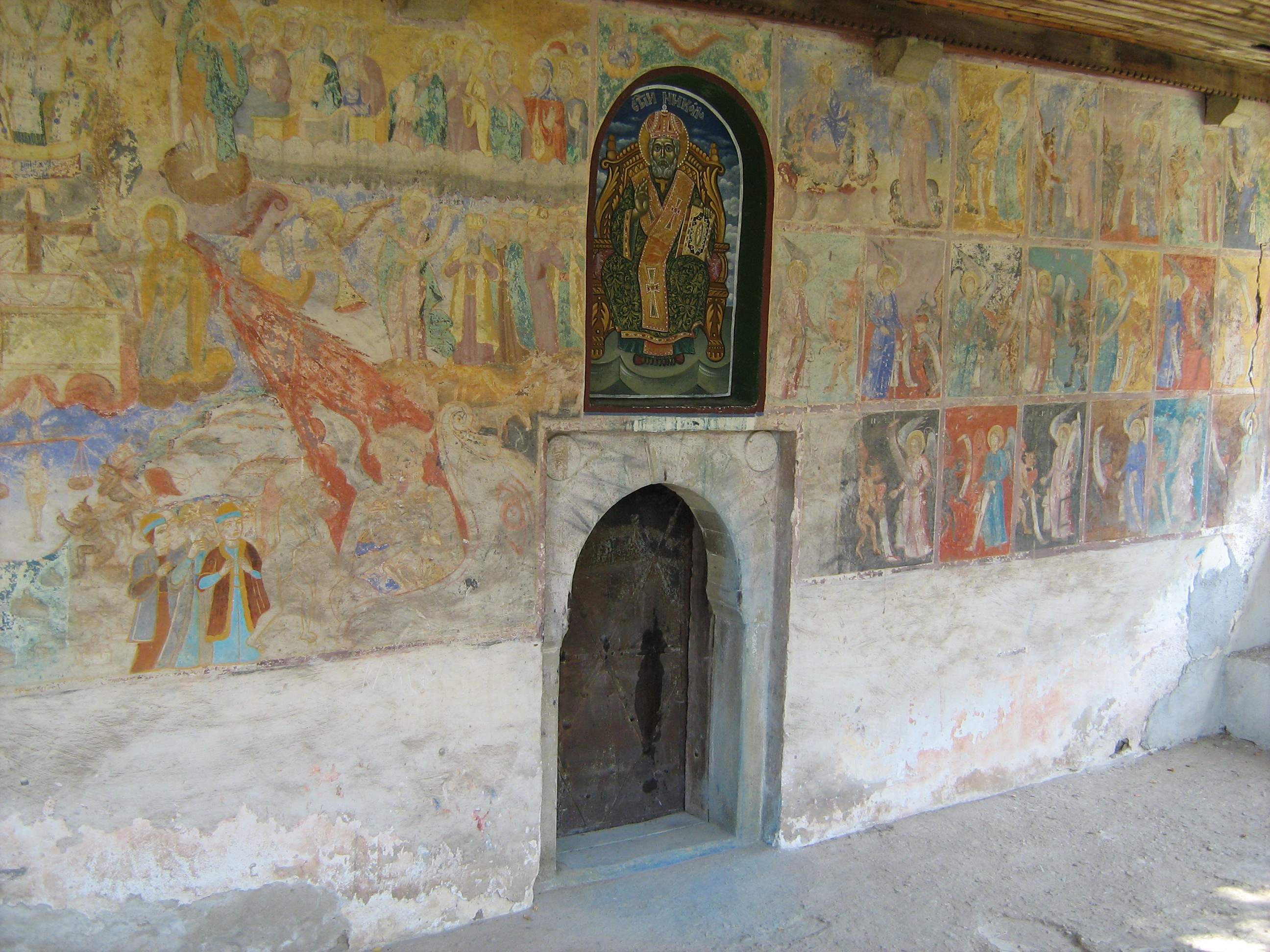 Frescos at St. Nikola's Church — in Topolnica, Kyustendil Province - Bulgaria.